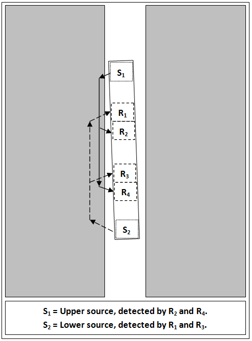 Diagram shows the source and receiver relationships on a sonic log.